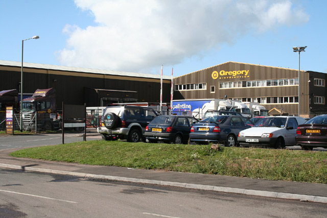 Cullompton: Kingsmill Industrial Estate. Gregory Distribution depot. The estate also runs to a flour mill, a milk depot, with various other outlets – for instance a hire facility for ‘cherry pickers’ and an industrial clothing shop – and the infrastructure allows for expansion, close to Junction 28 on the M5 Motorway